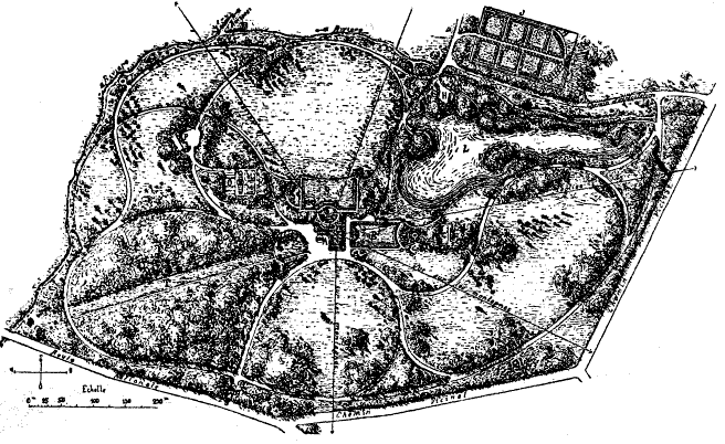 Landscape garden, draft